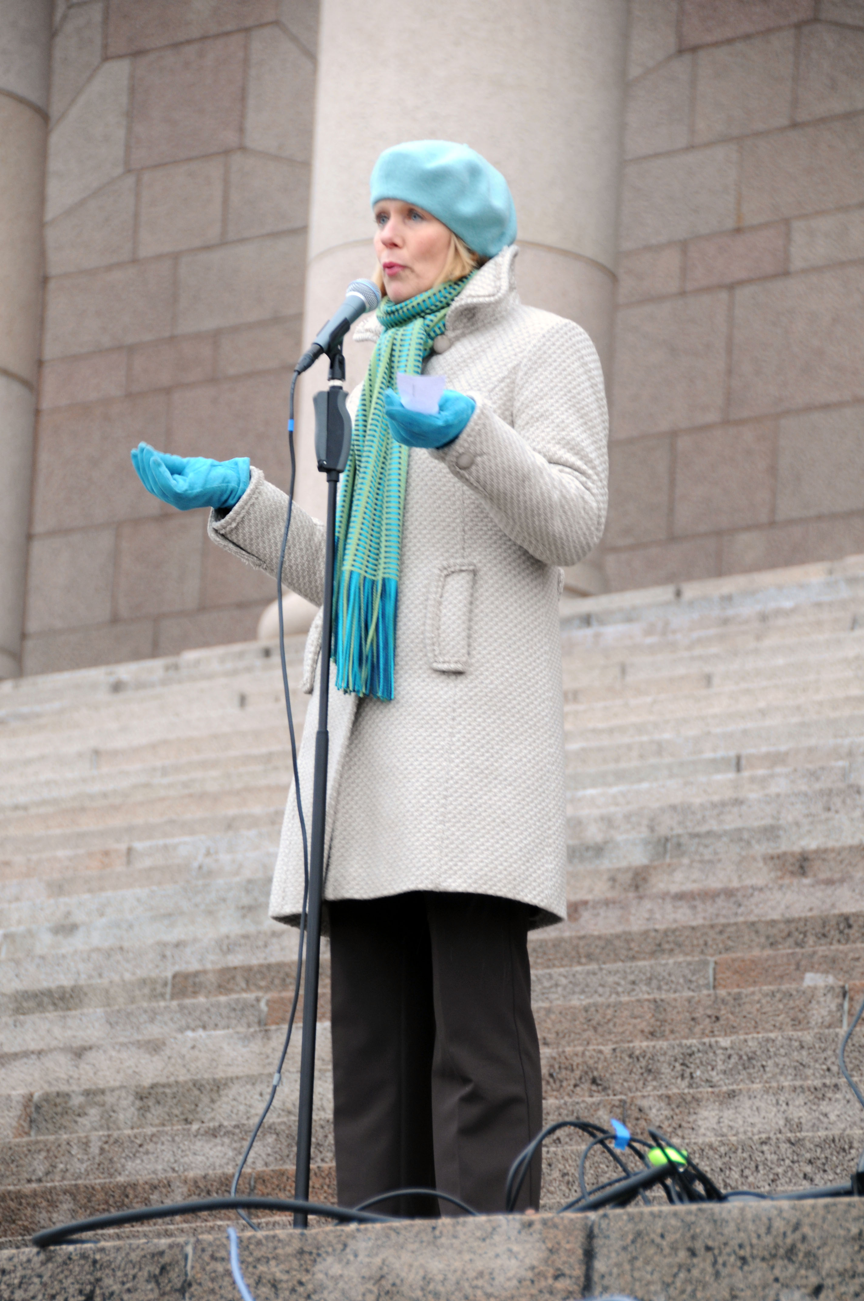 Finnish politician Saara Karhu.